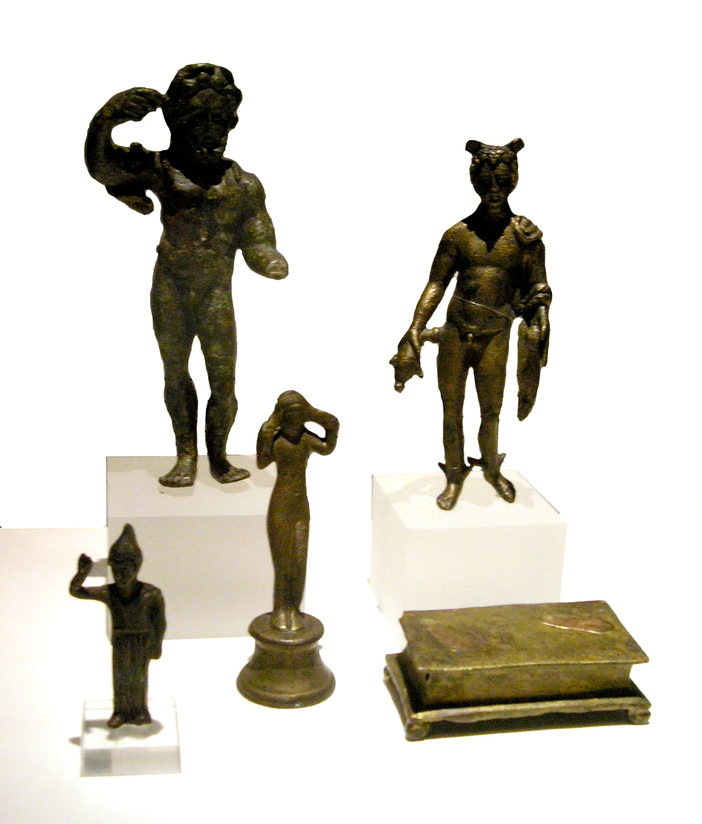 (from left to right) Jupiter statuette, 140-170 A.D., bronze. Minerva statuette, 1st to 3rd century A.D., bronze. Mercury statuette, 1st to the 3rd century A.D. Bronze. Venus statuette. 1st to 3rd century A.D. Bronze. Pedestal for a God statuette, 1st to 3rd century A.D. Bronze. On such small pedestals, statuettes were mounted, and were then put up in the lararium. On the upper side, the "footprints" of the god figurine are recognisable.